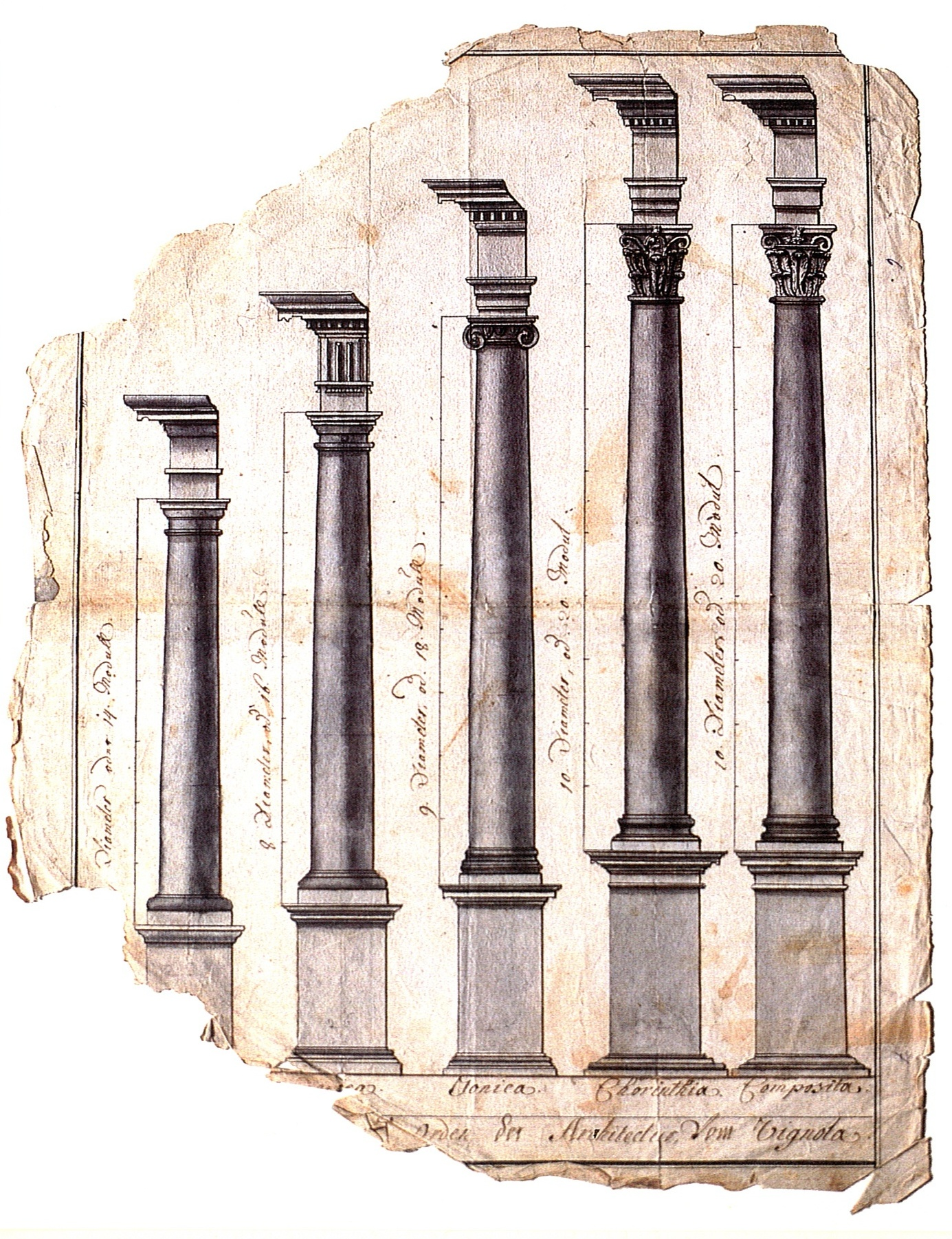 Giacomo Barozzi da Vignola, Five orders, engraving from Regole delle cinque ordini d'architettura